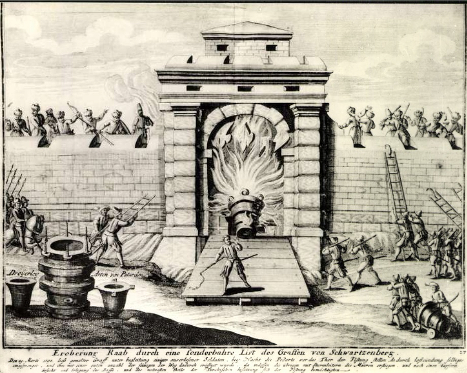 Battle of Győr Castle in 1598